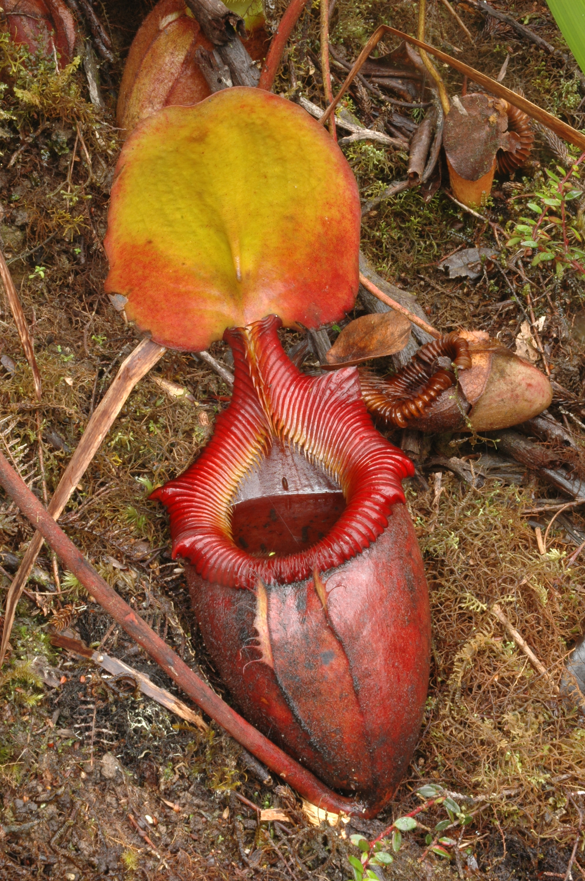 Nepenthes × kinabaluensis Kinabalu by Jeremiah Harris